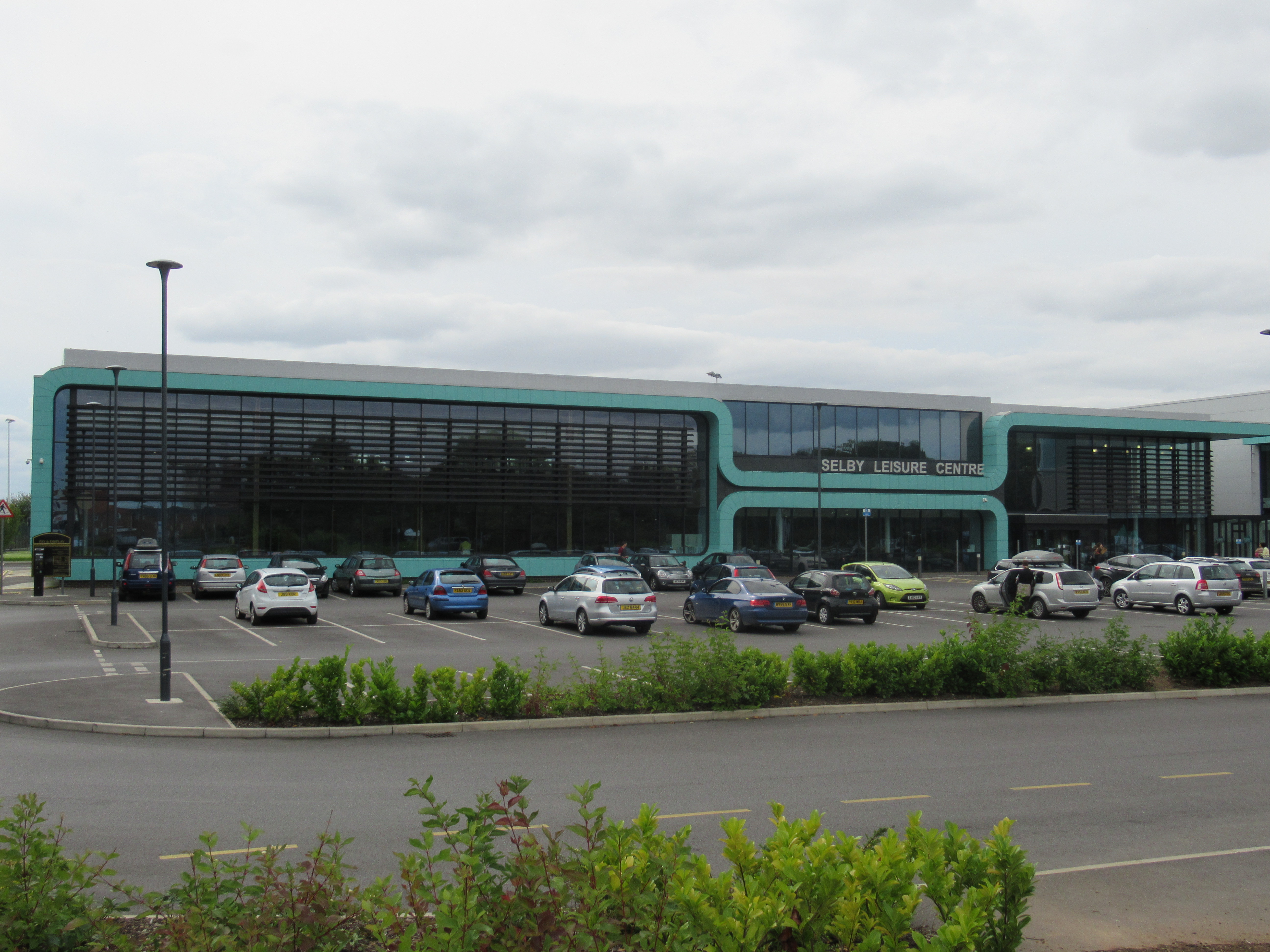 Funky, chunky detailing around the edges.